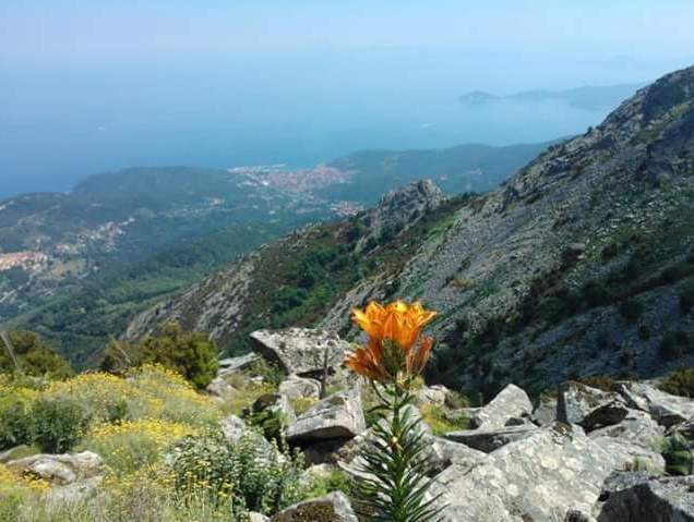 elba island